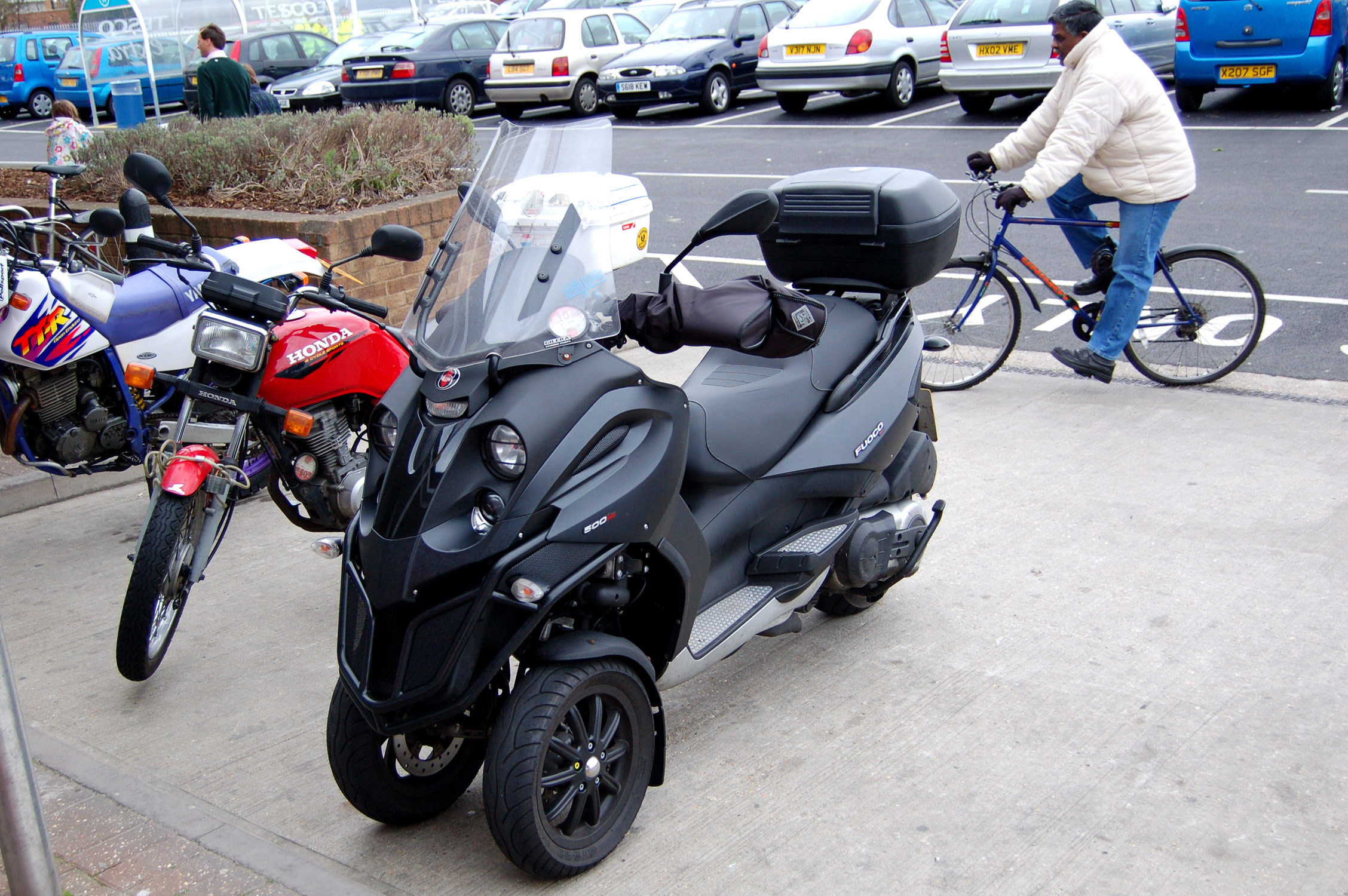 Piaggio unleashes the MP3's evil big brother, the 500cc Fuoco